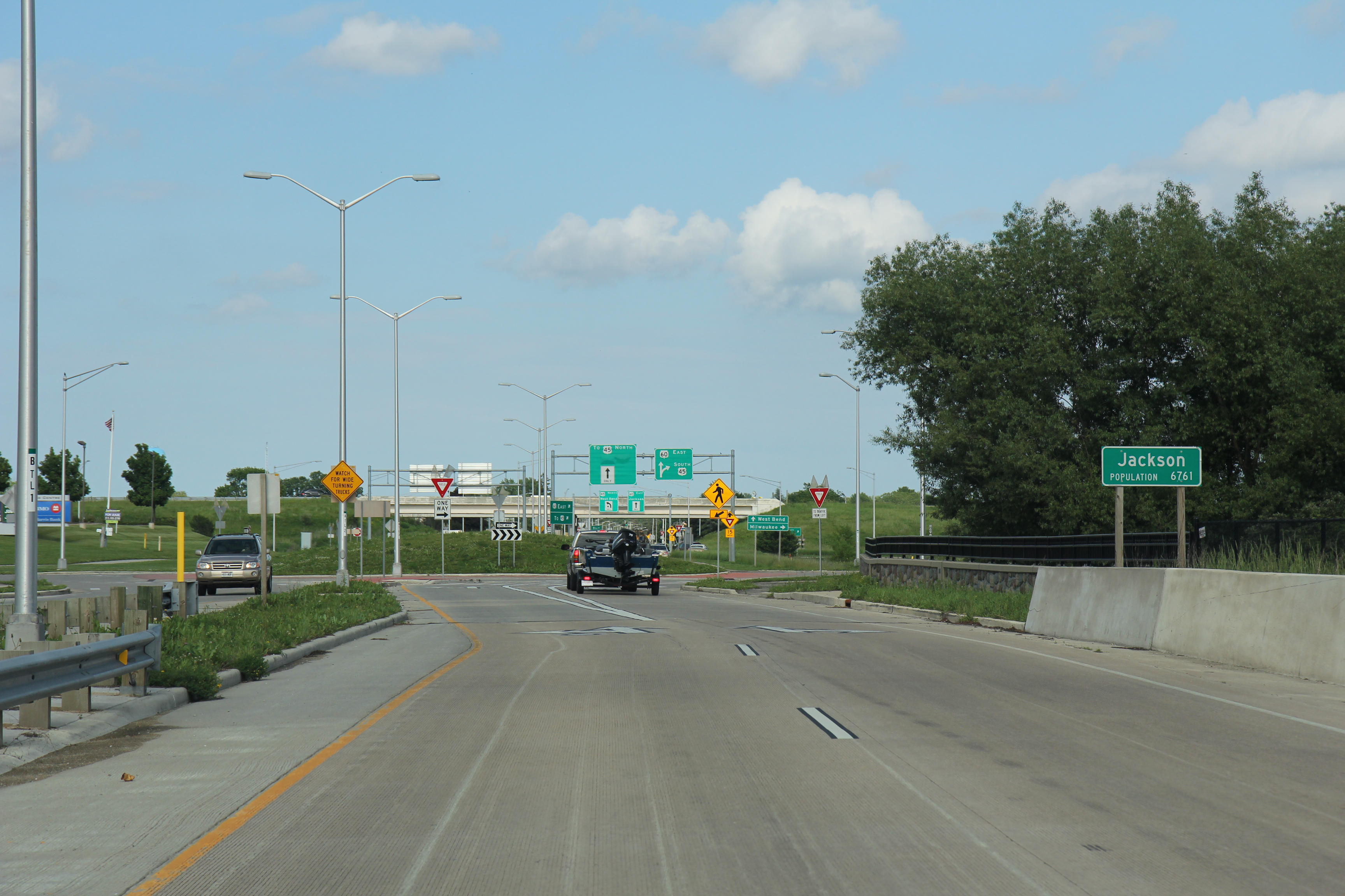 The sign for the village of Jackson in Wisconsin on Wisconsin Highway 60.